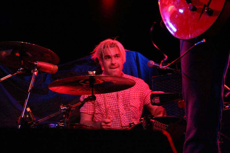 Gene Trautmann playing with the Eagles of Death Metal live at The Glass House (Pomona, CA)